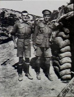 Gunner (later Air Commodore) Raymond James Brownell, 9th Battery, 3rd Field Artillery Brigade, (left) with his brother Captain Herbert Percival Brownell, 7th Field Ambulance, standing outside a dugout on Gallipoli.